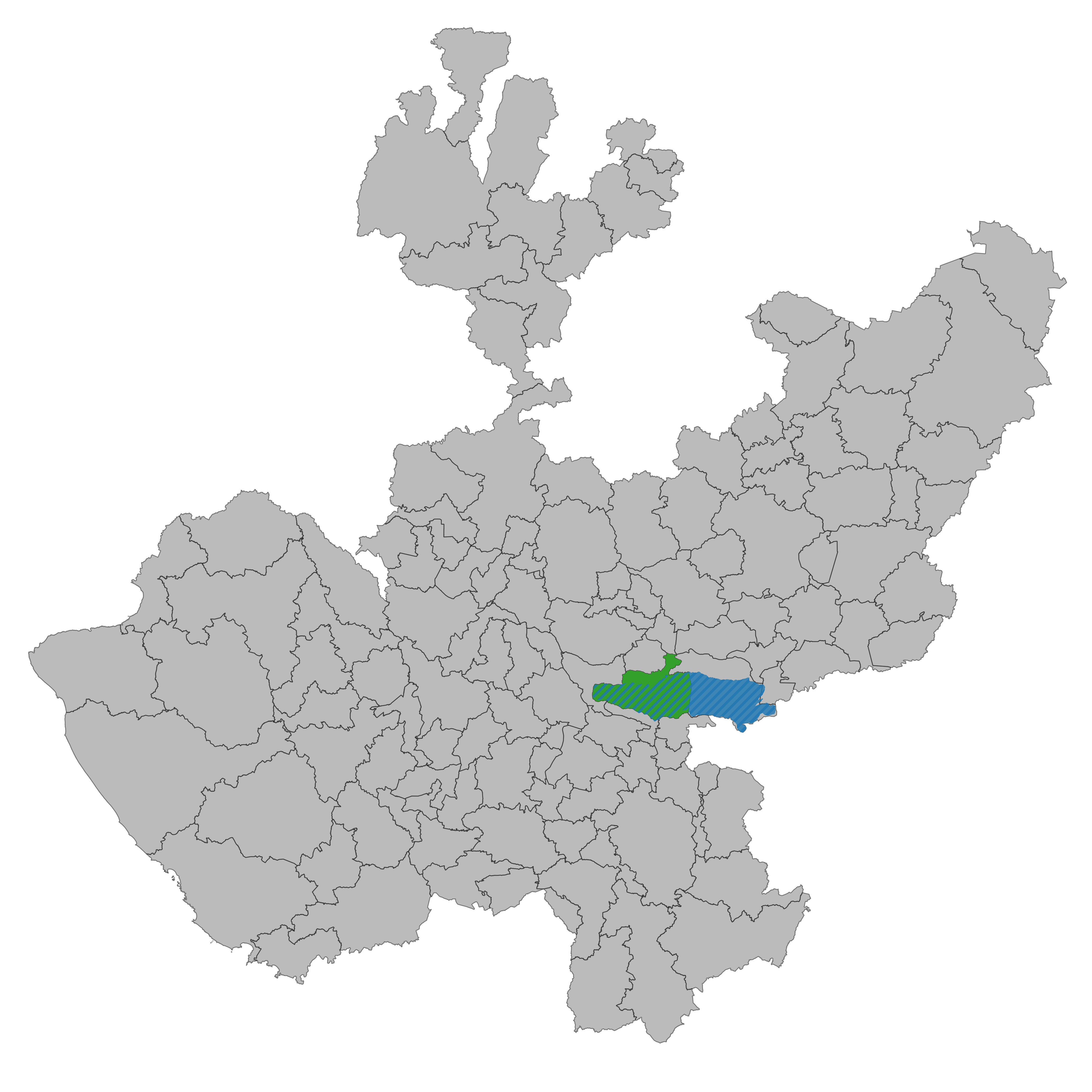 Municipality of Jalisco. Prepared with the software QGIS version 2.8.2 Wien & with information of SCINCE 2010 version 05/2013